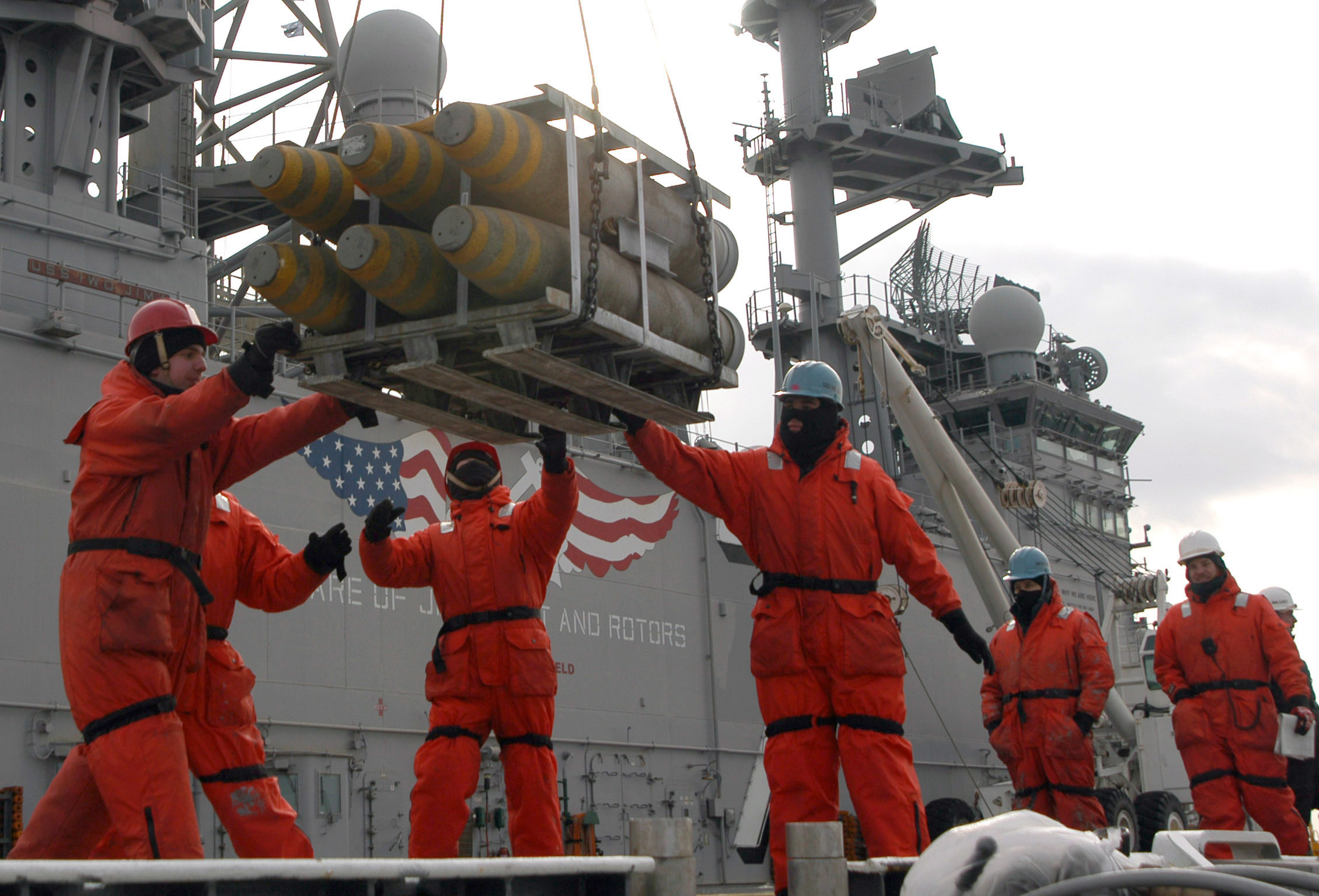 Earle, NJ (Dec. 12, 2005) - Aviation Ordnancemen carefully inventory ordnance aboard the amphibious assault ship USS Iwo Jima (LHD 7). Iwo Jima visited Naval Weapons Station Earle to conduct an ammunitions onload. U.S. Navy photo by Photographer's Mate Airman Apprentice Christopher L. Clark (RELEASED)